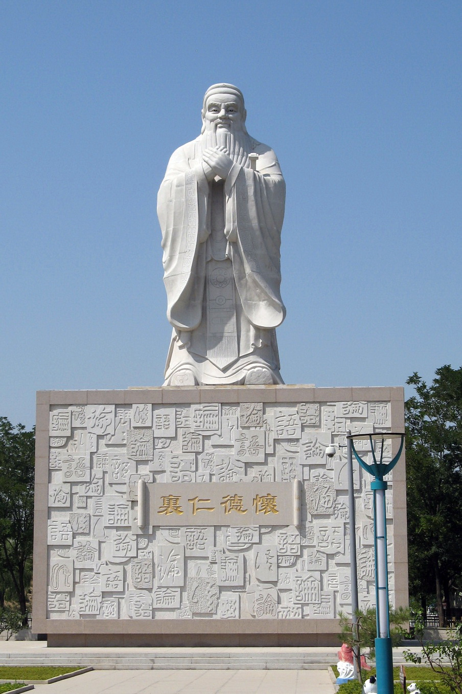 Statue of Confucius in People's Park, Huairen, Shanxi, China